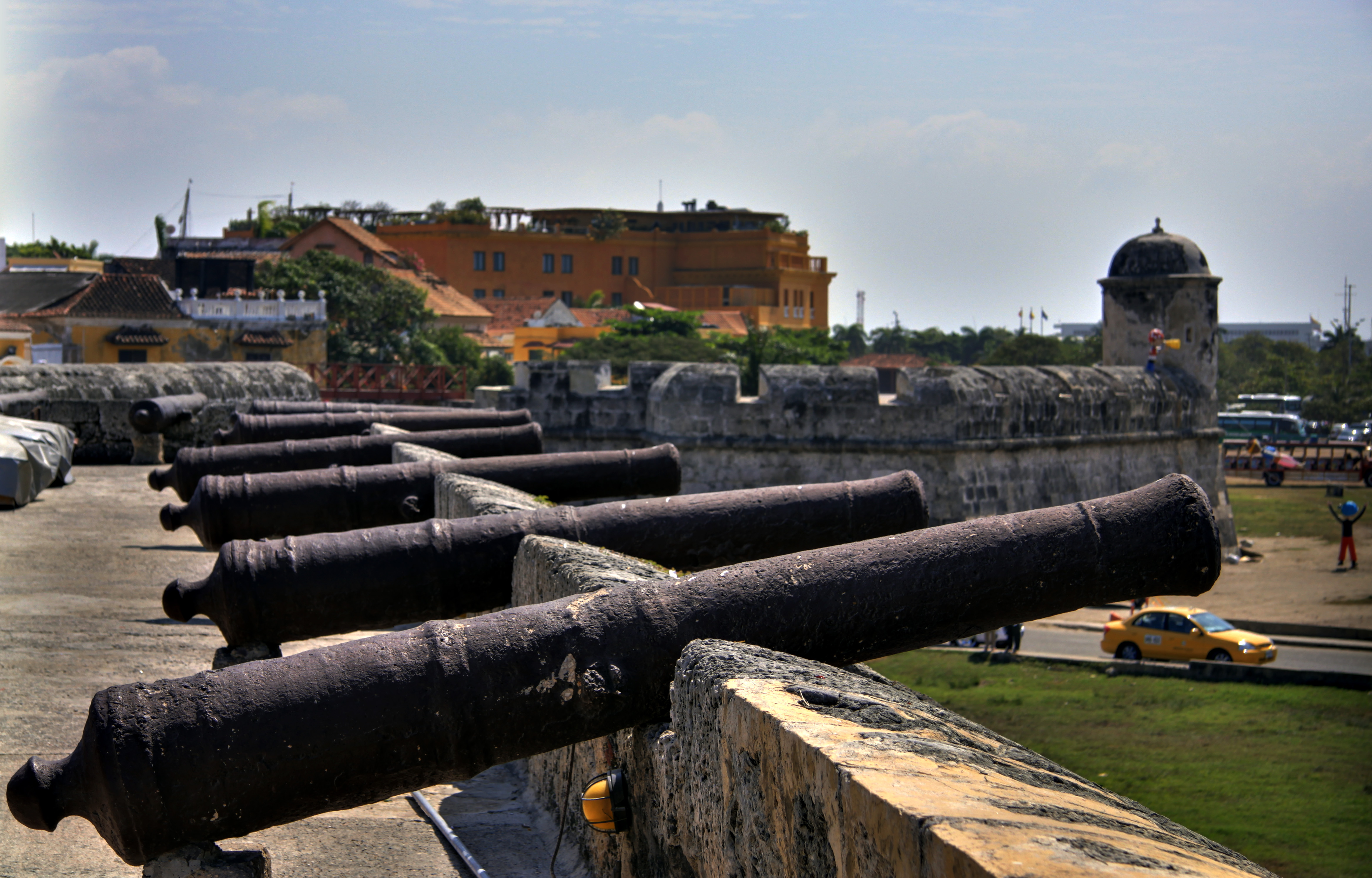 Please, have this description accessible to all by translating it in different languages.